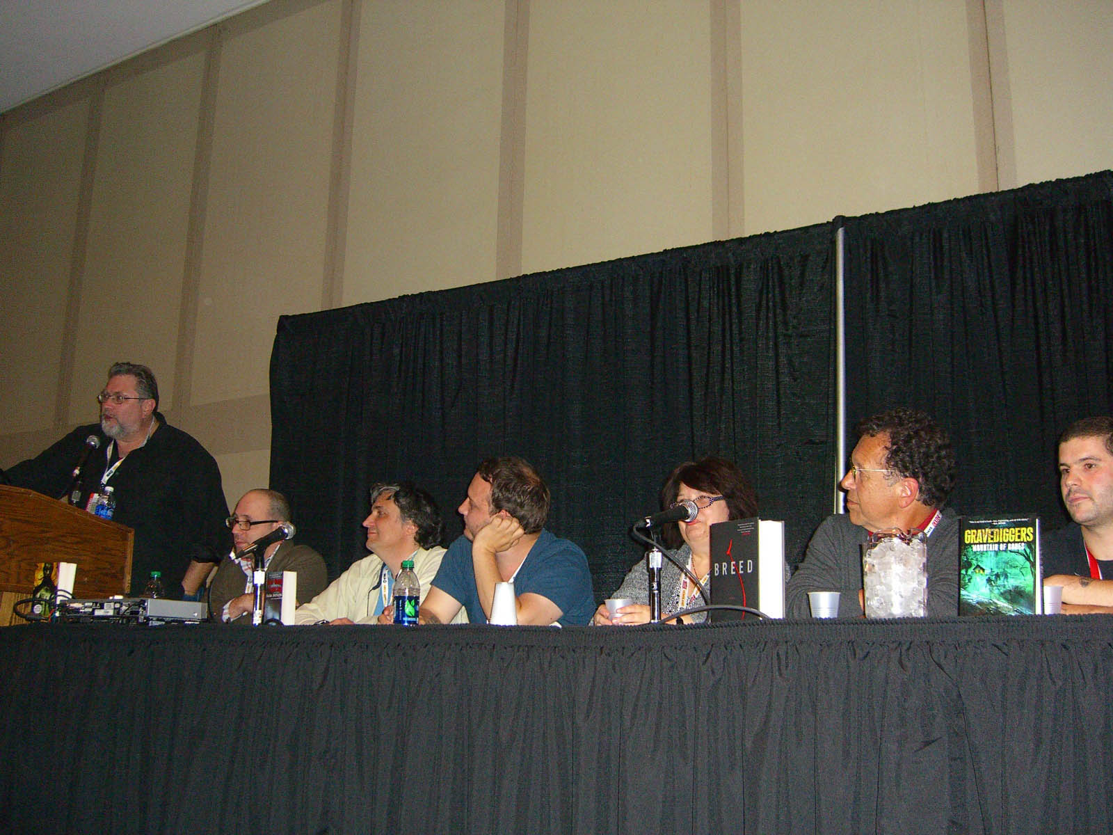 The Saturday zombie discussion panel featuring novelists who have worked in the genre on Day 3 of the 2012 New York Comic Con, Saturday October 13, 2012 at the Jacob K. Javits Convention Center in Manhattan. From left to right are emcee Jonathan Maberry, Daniel Kraus, Stefan Petrucha, Will Hill, Rachel Caine, Chase Novak, Christopher Krovatin and Barry Lyga. This photo was created by Luigi Novi. It is not in the public domain, and use of this file outside of the licensing terms is a copyright violation.